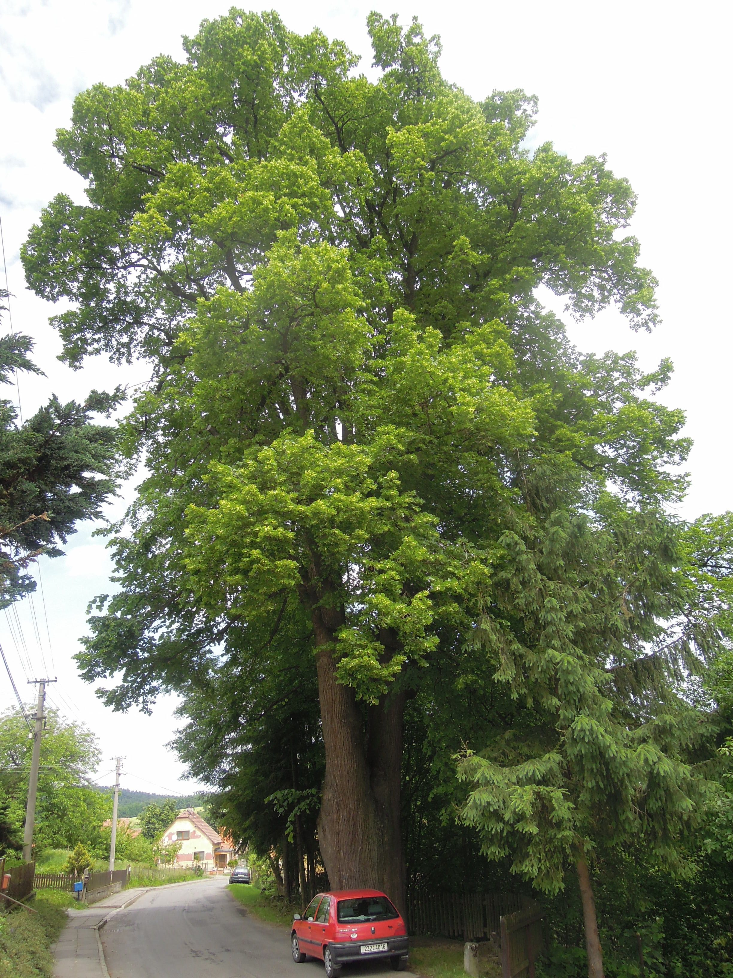 Famous tree Študlovská lípa (Tilia platyphyllos) in Študlov, Vsetín District, Zlín Region, Czech Republic